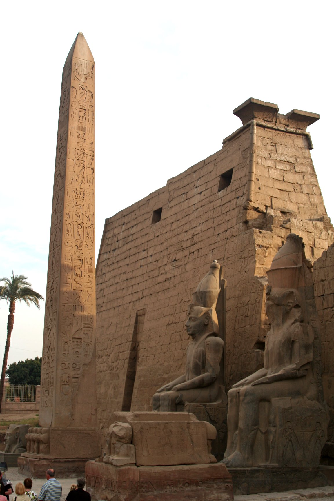 First Pylon and Obelisk - Temple of Luxor